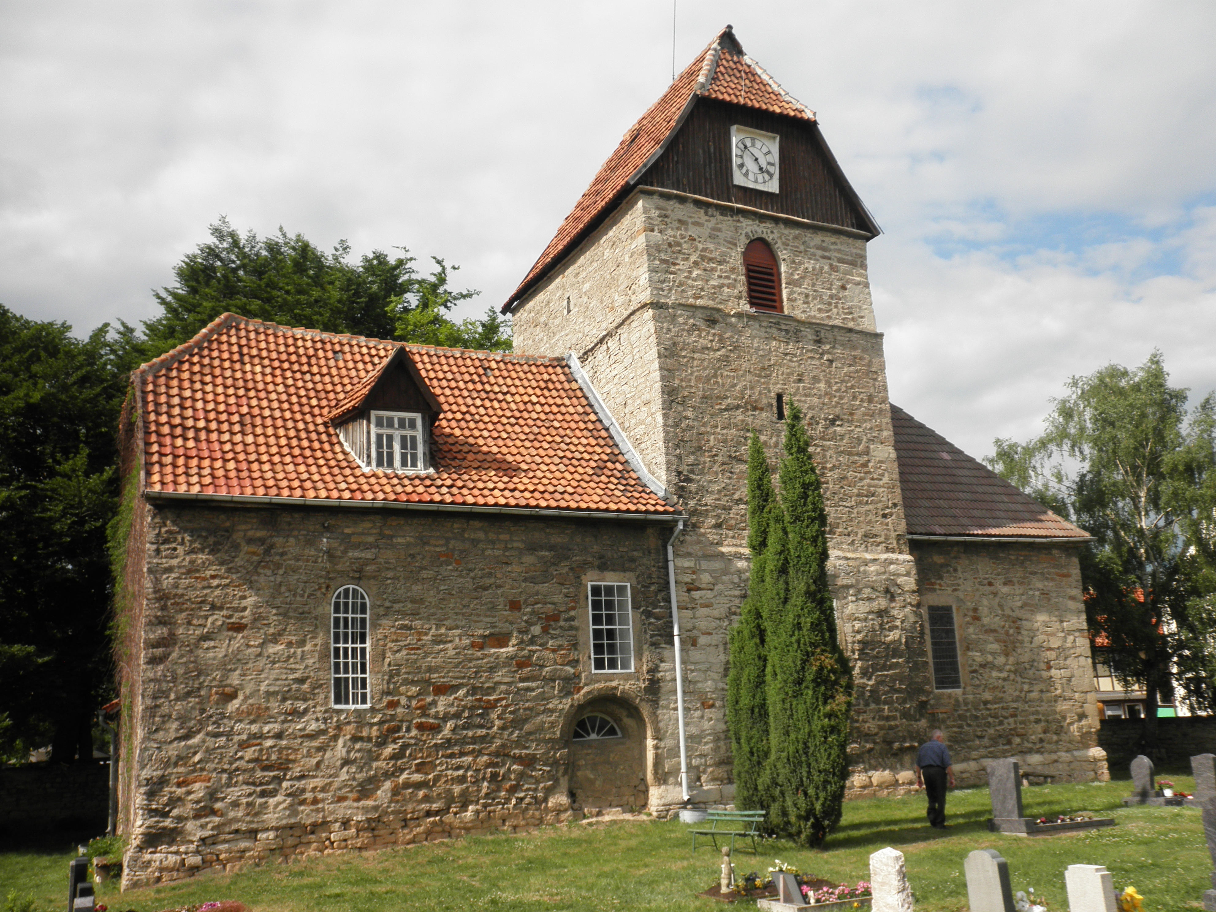 Church in Kirchengel (Großenehrich) in Thuringia